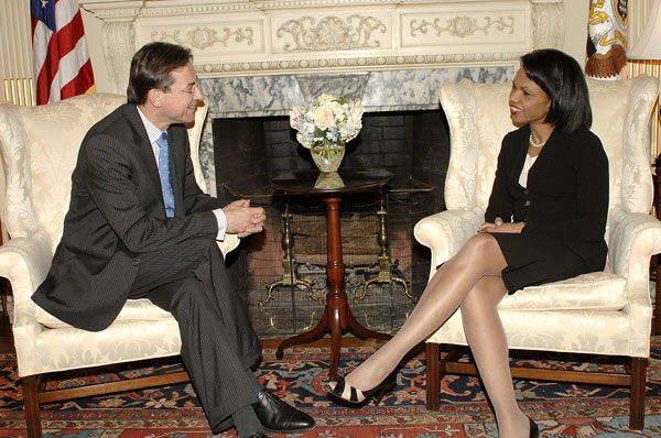 Secretary Rice sits His Excellency Maxime Verhagen, Minister of Foreign Affairs of the Kingdom of the Netherlands during their bilateral and working lunch.